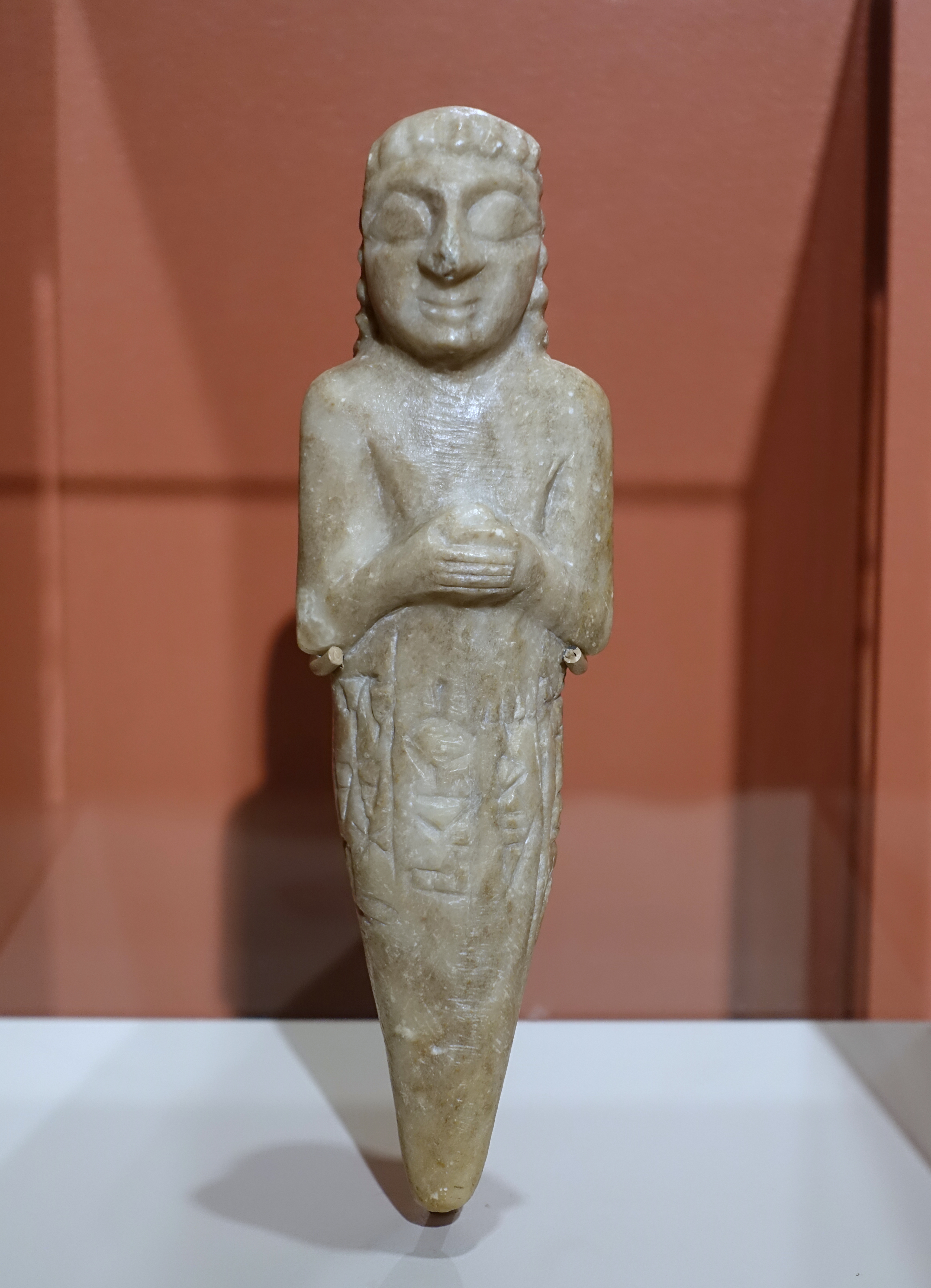 Exhibit in the Harvard Semitic Museum, Harvard University - Cambridge, Massachusetts, USA. This work is old enough so that it is in the public domain.